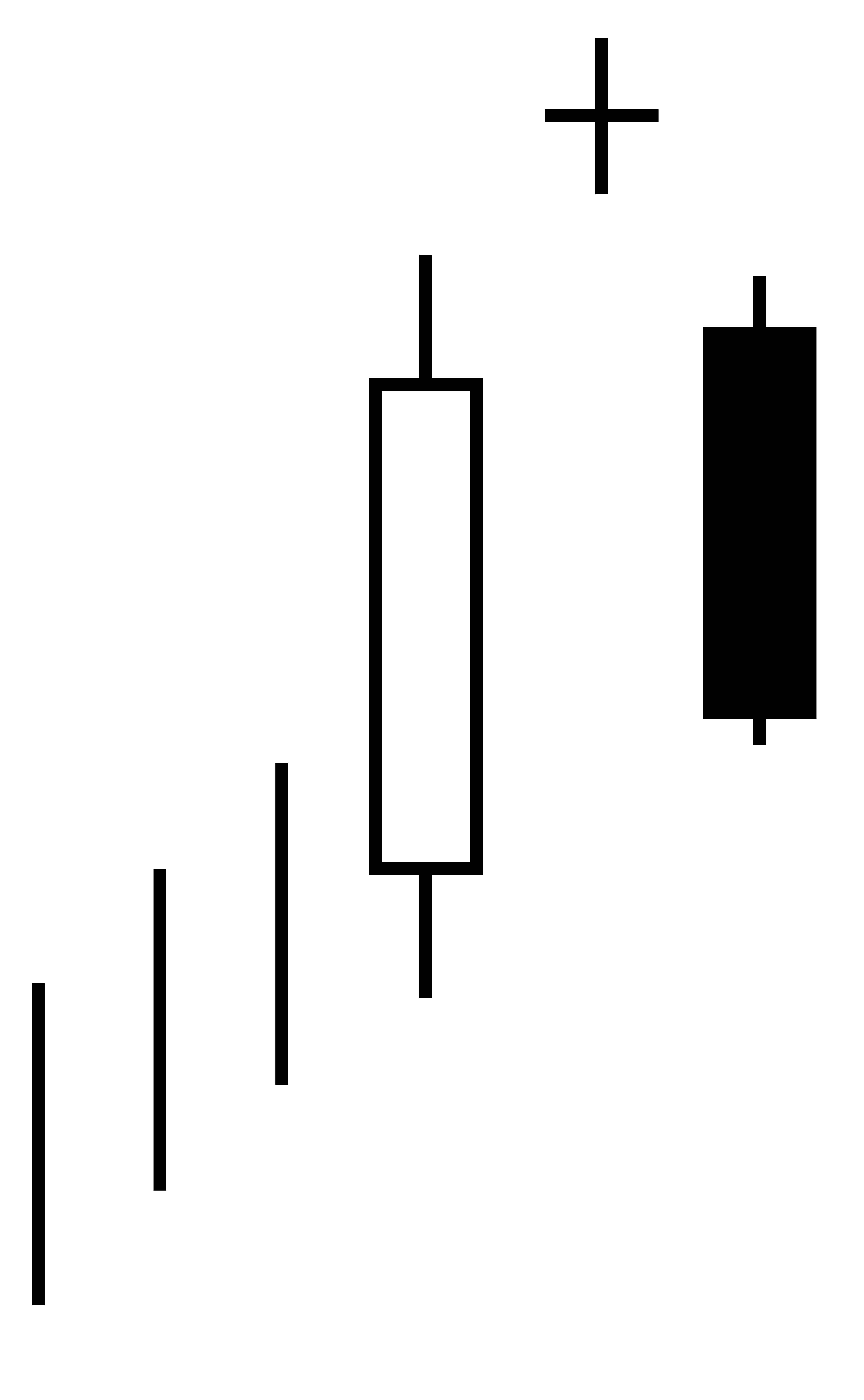 Bearish abandoned baby